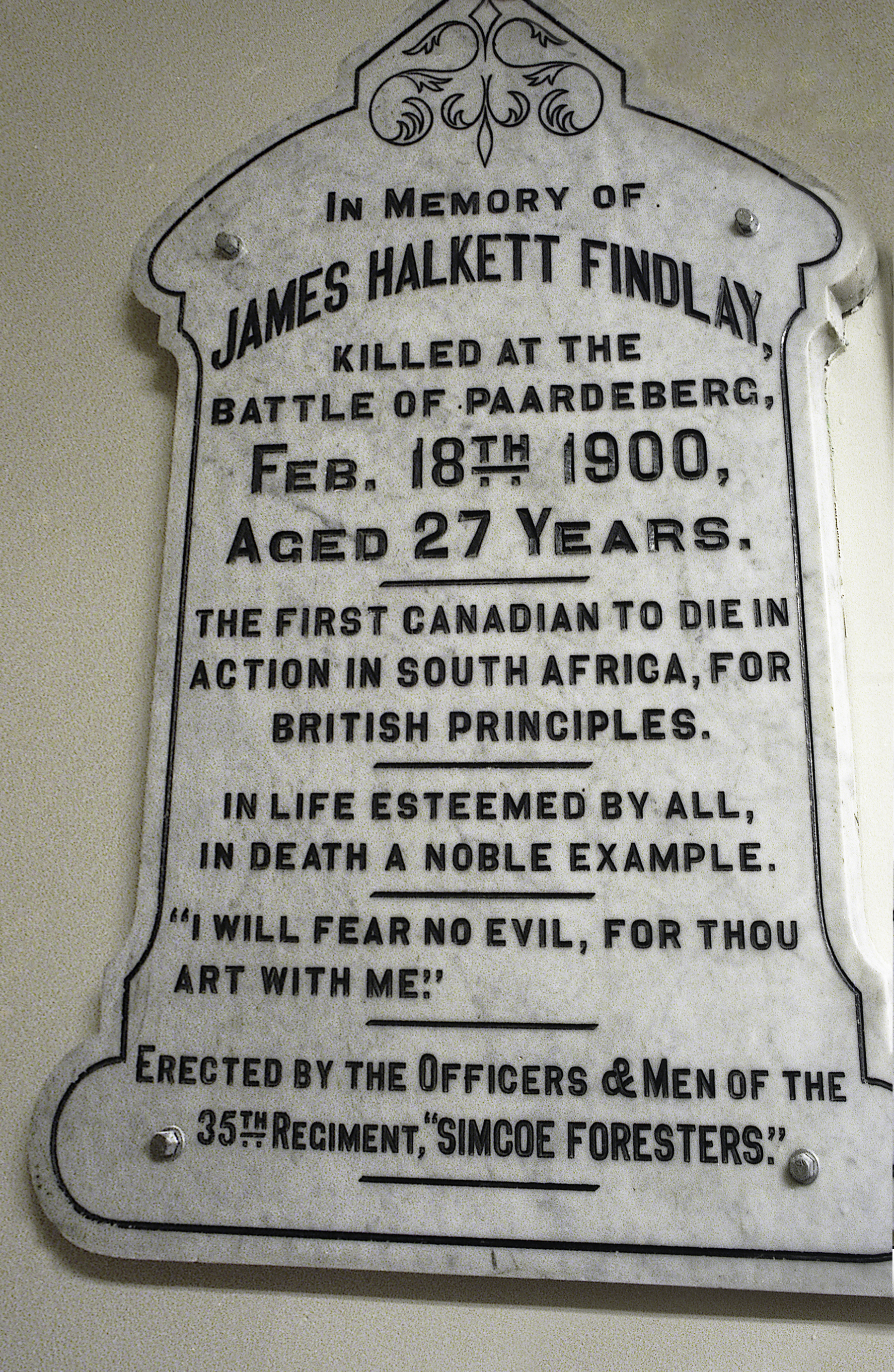 This memorial stone is erected in St. Andrew's Presbyterian Church, Barrie, Ontario, Canada. It commemorates the first regular Canadian Soldier to die overseas.